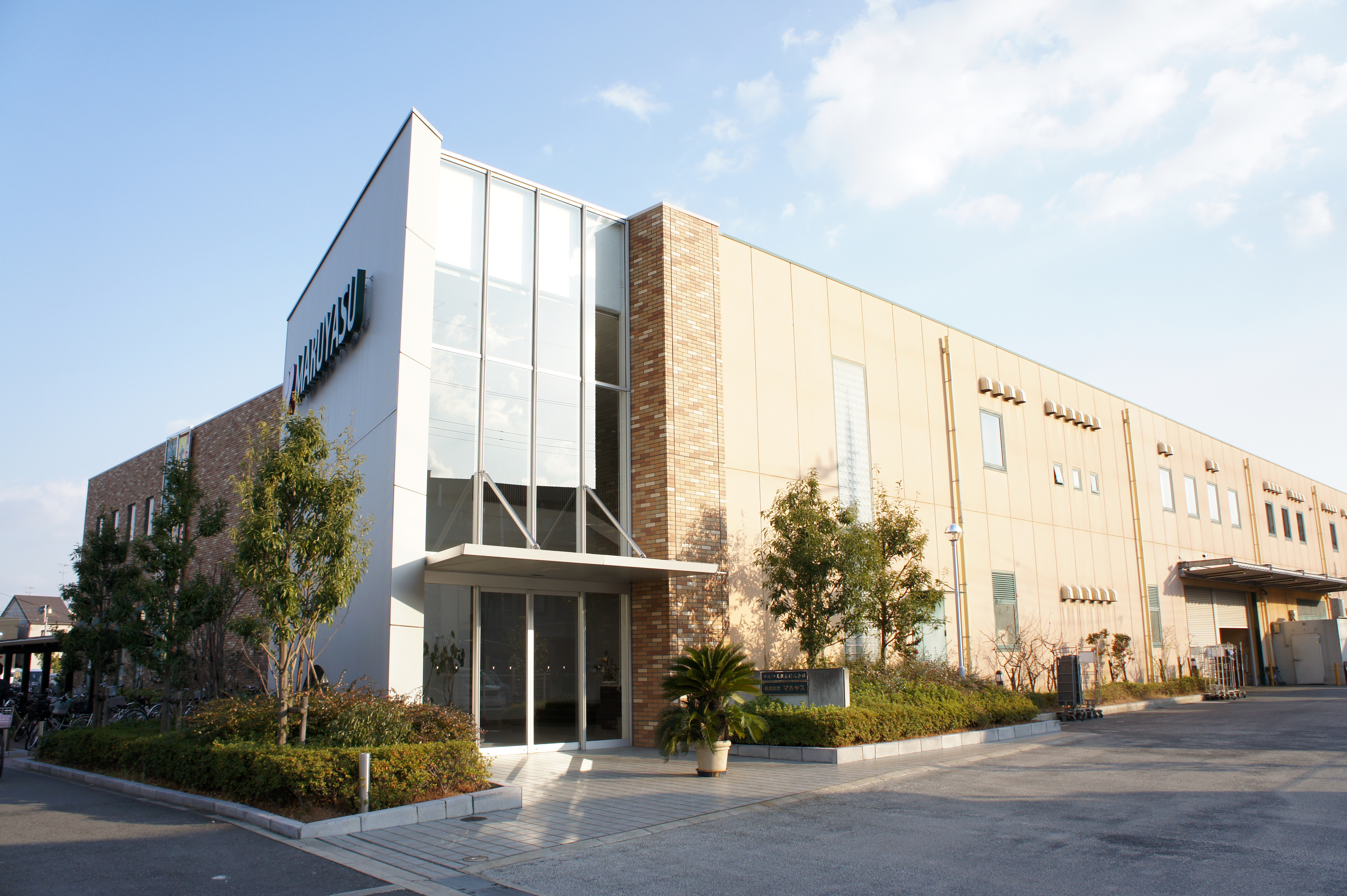 Maruyasu MARUYASU Co., Ltd. Head Office, 1-26-3 Miyatacho Takatsuki-City Osaka JAPAN